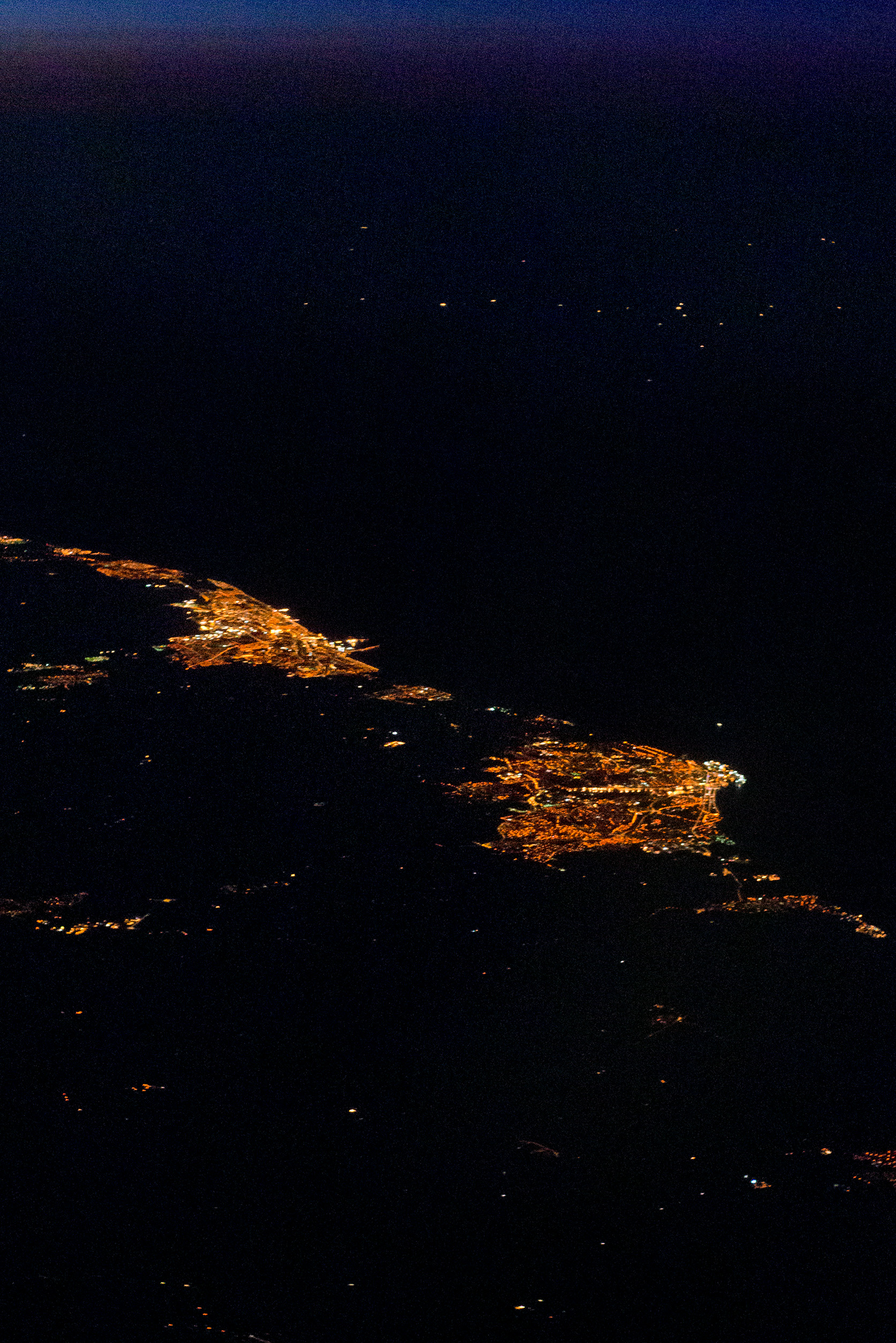 Lowestoft (right bottom) and Great Yarmouth (left top) at night. Settlement left from Lowestoft is Beccles with Worlingham. Distant lights close to horizon are ships on the North Sea